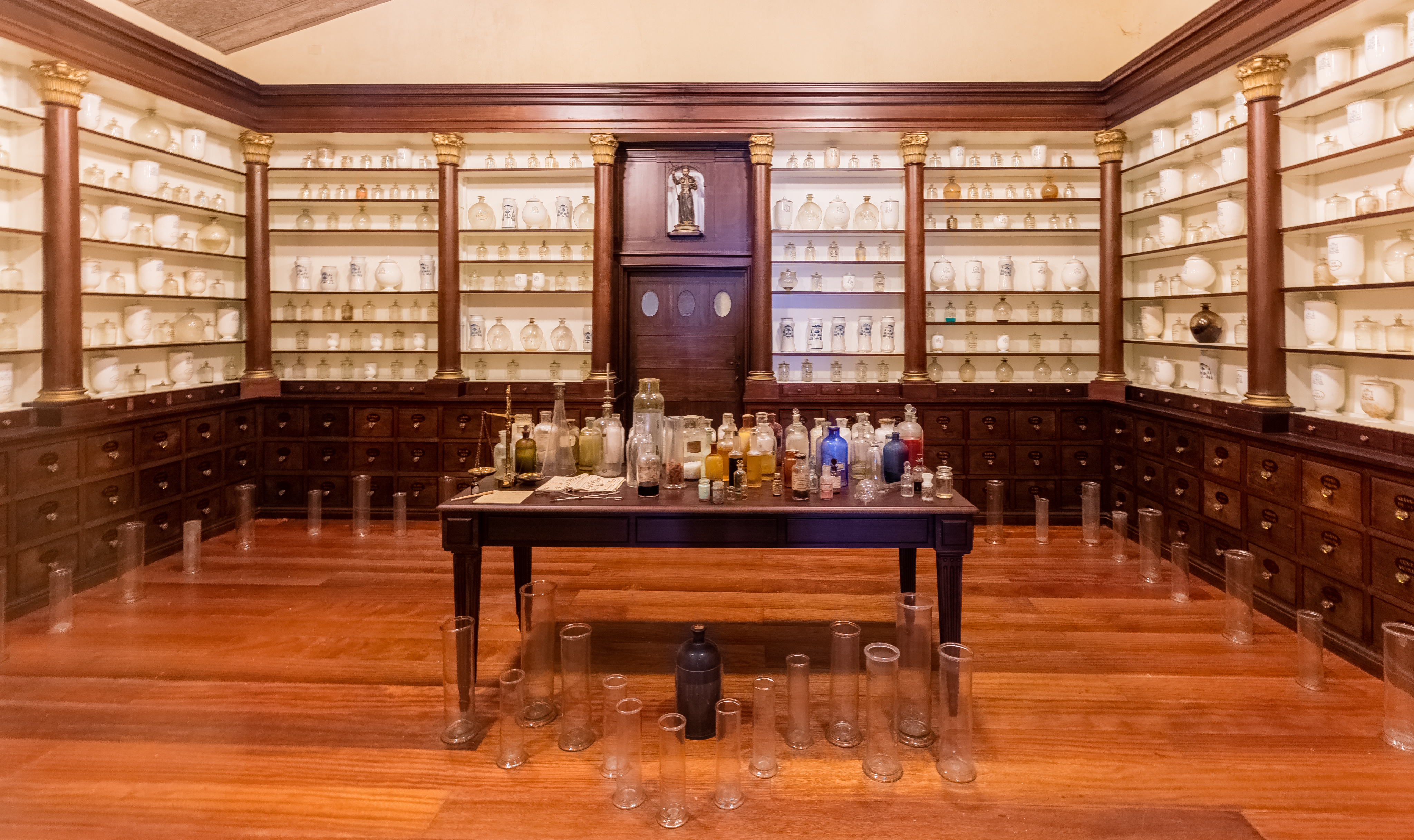 Pharmacy of St Martín Pinario, Santiago de Compostela, Spain